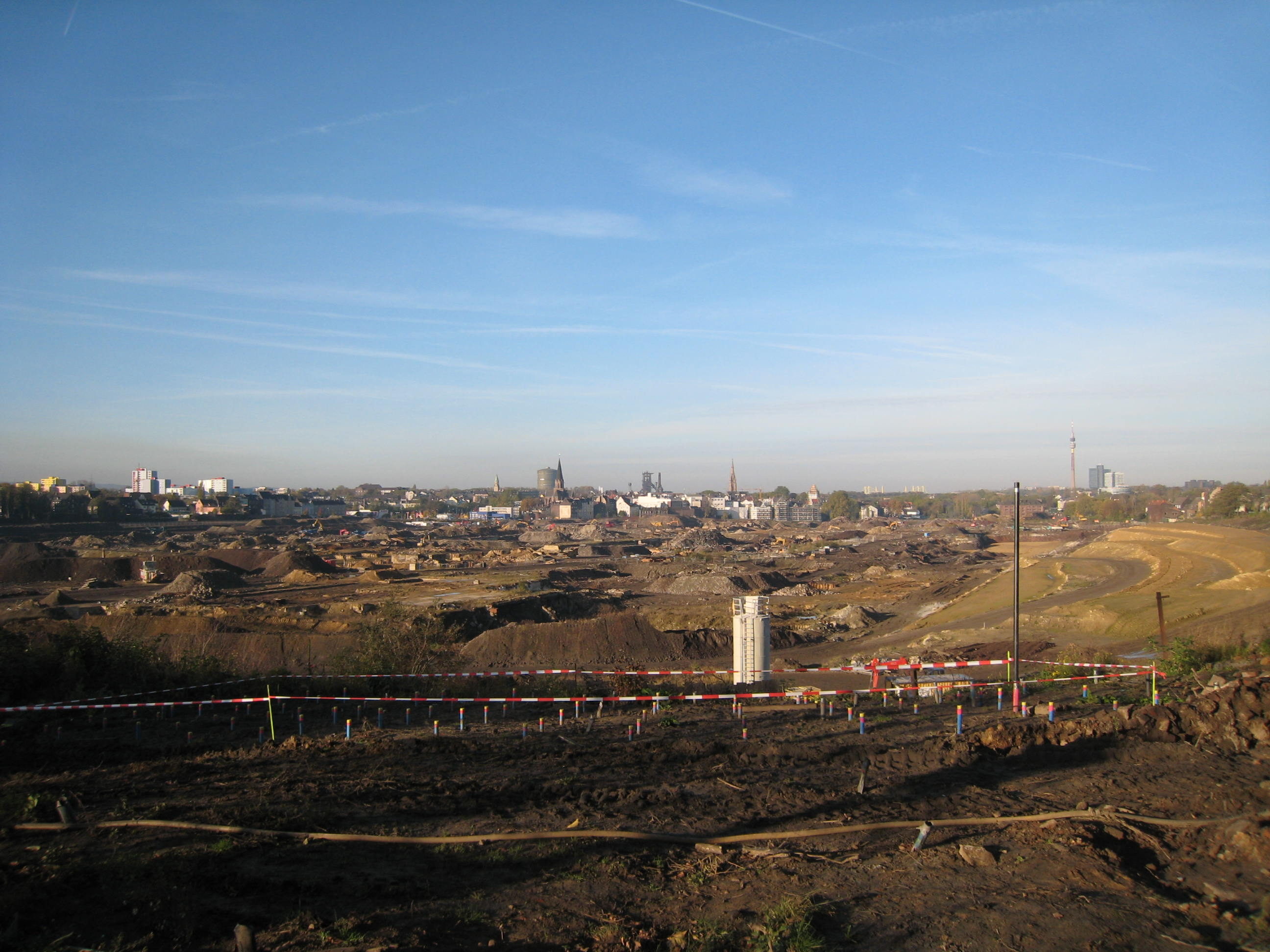 Phoenixsee